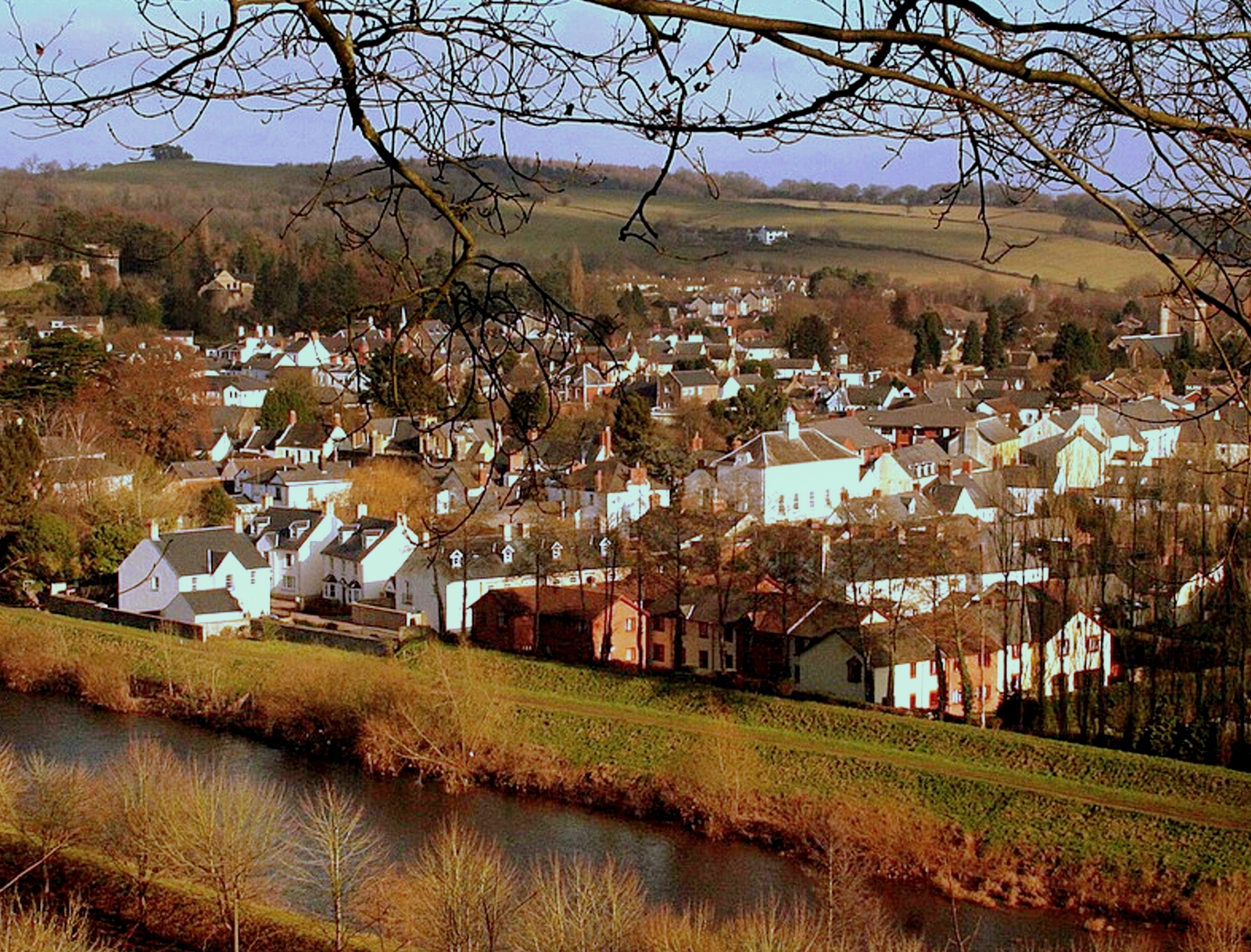 Usk, Monmouthshire, Wales. My own photo